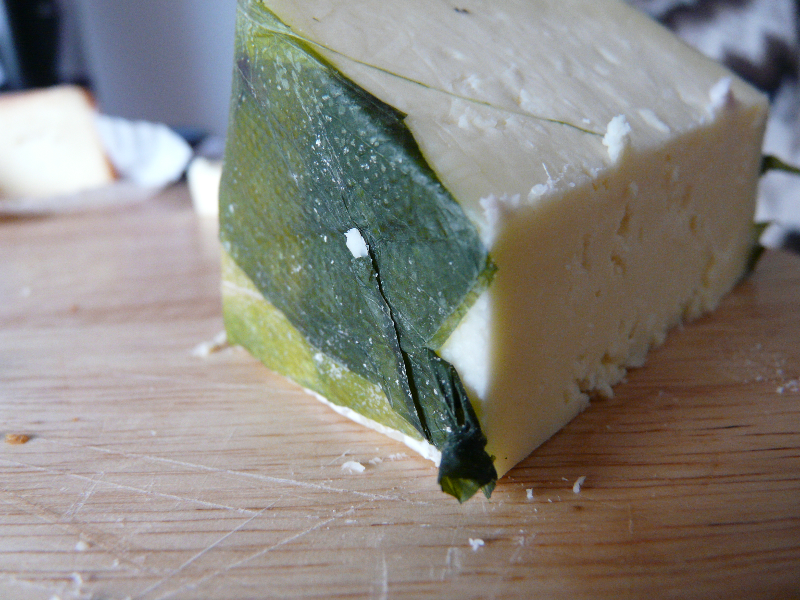 Nettle-wrapped, probably prefer non-garlic Yarg though